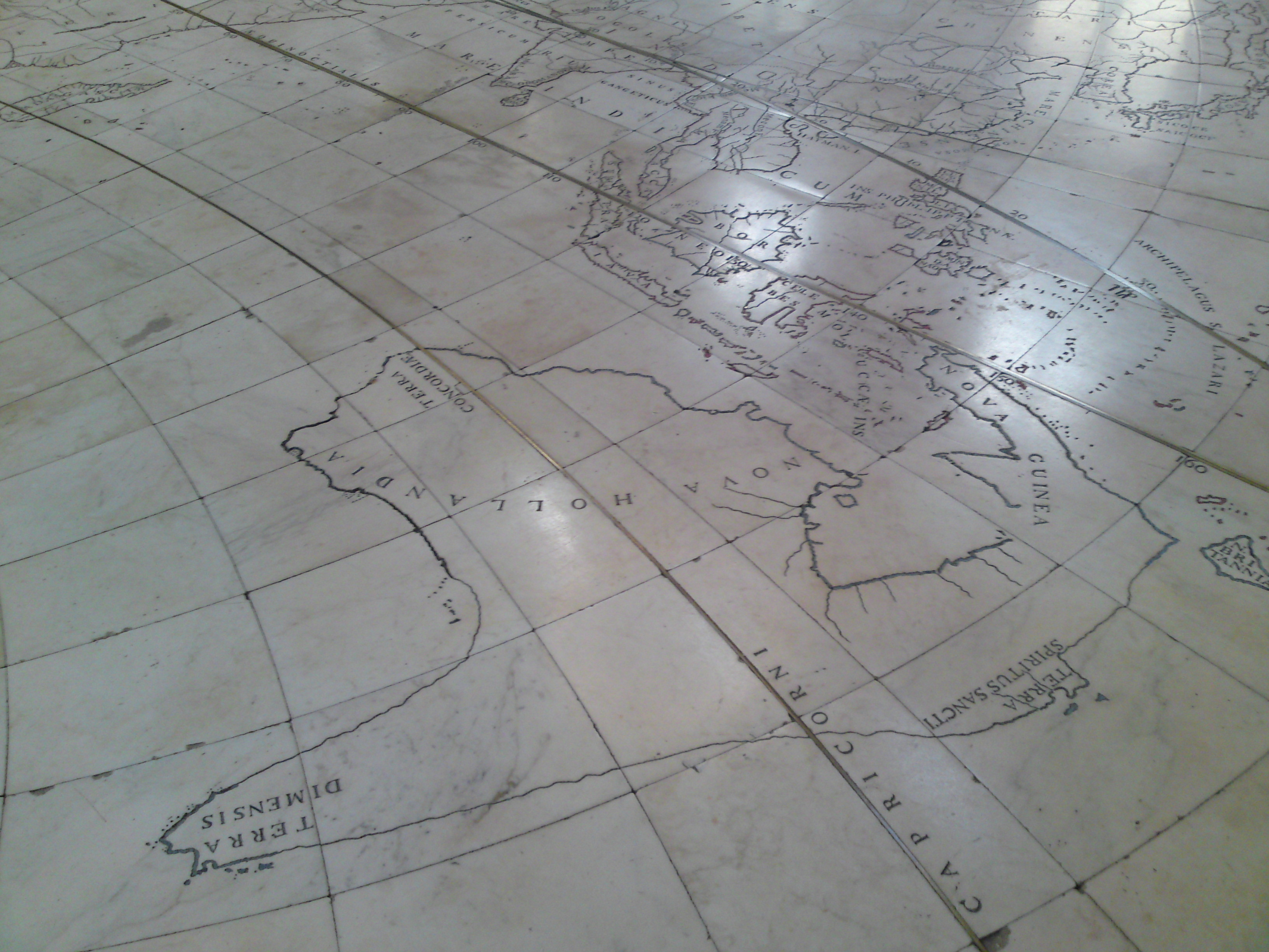 Nova Hollandia, the 17th-century name for Australia, with the tip of Tasmania on the left, called "Anthoni van Diemens Landt", or Terra Dimensis. The floor map dates to about 1665, and is the local inlay artist's impression of the world map by Joan Blaeu. This photo shows how the artist connected the dots from Australia to the Tasmania coast, ignoring the gaps in the Joan Blaeu maps of the 1650s and 1660s, that were based on the reports by Abel Tasman's voyage of 1642.